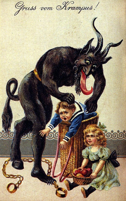 Old card reading "Gruss vom Krampus" ("Greetings from Krampus").